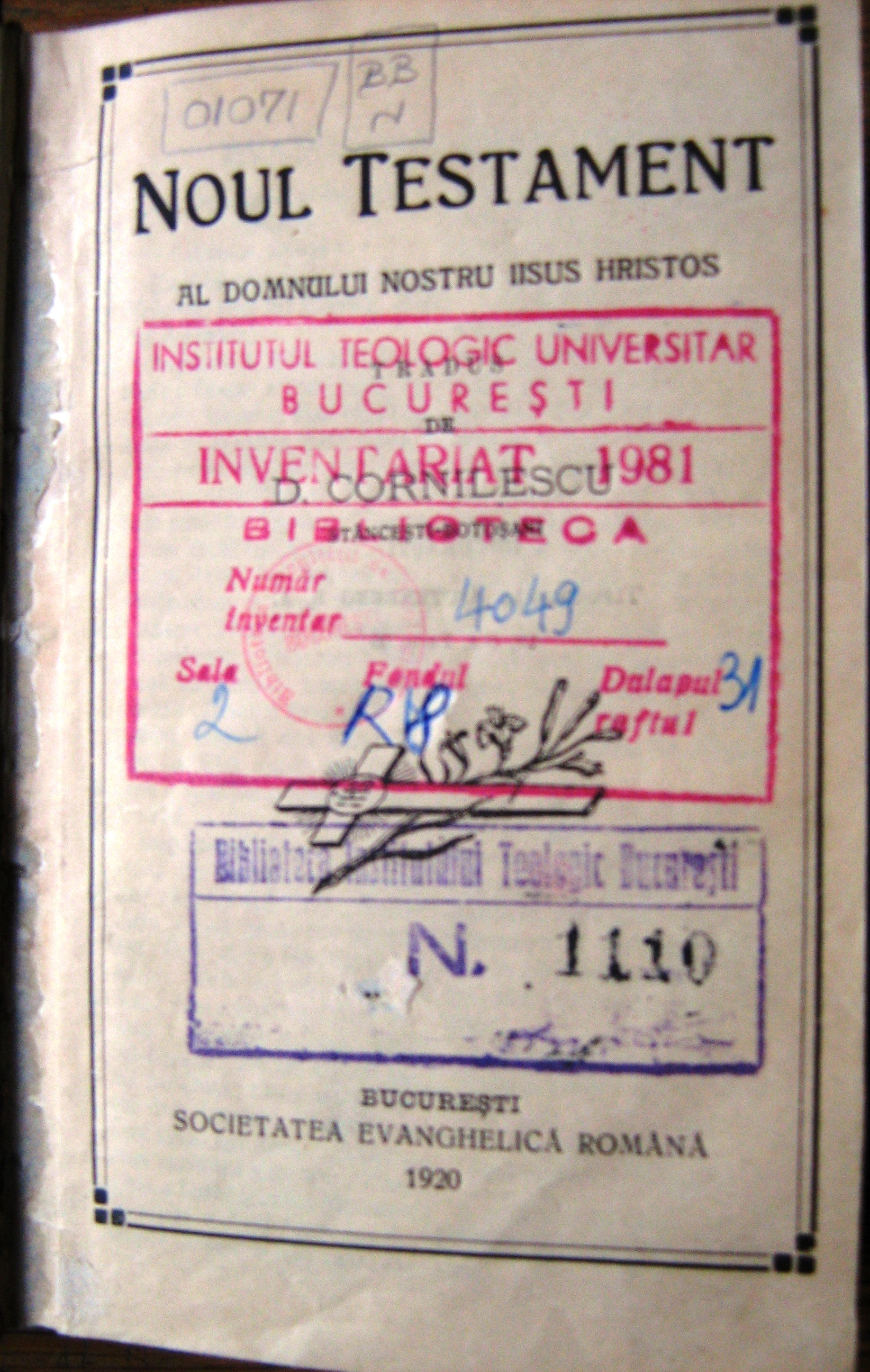 Titlepage of the 1920 Cornilescu NT